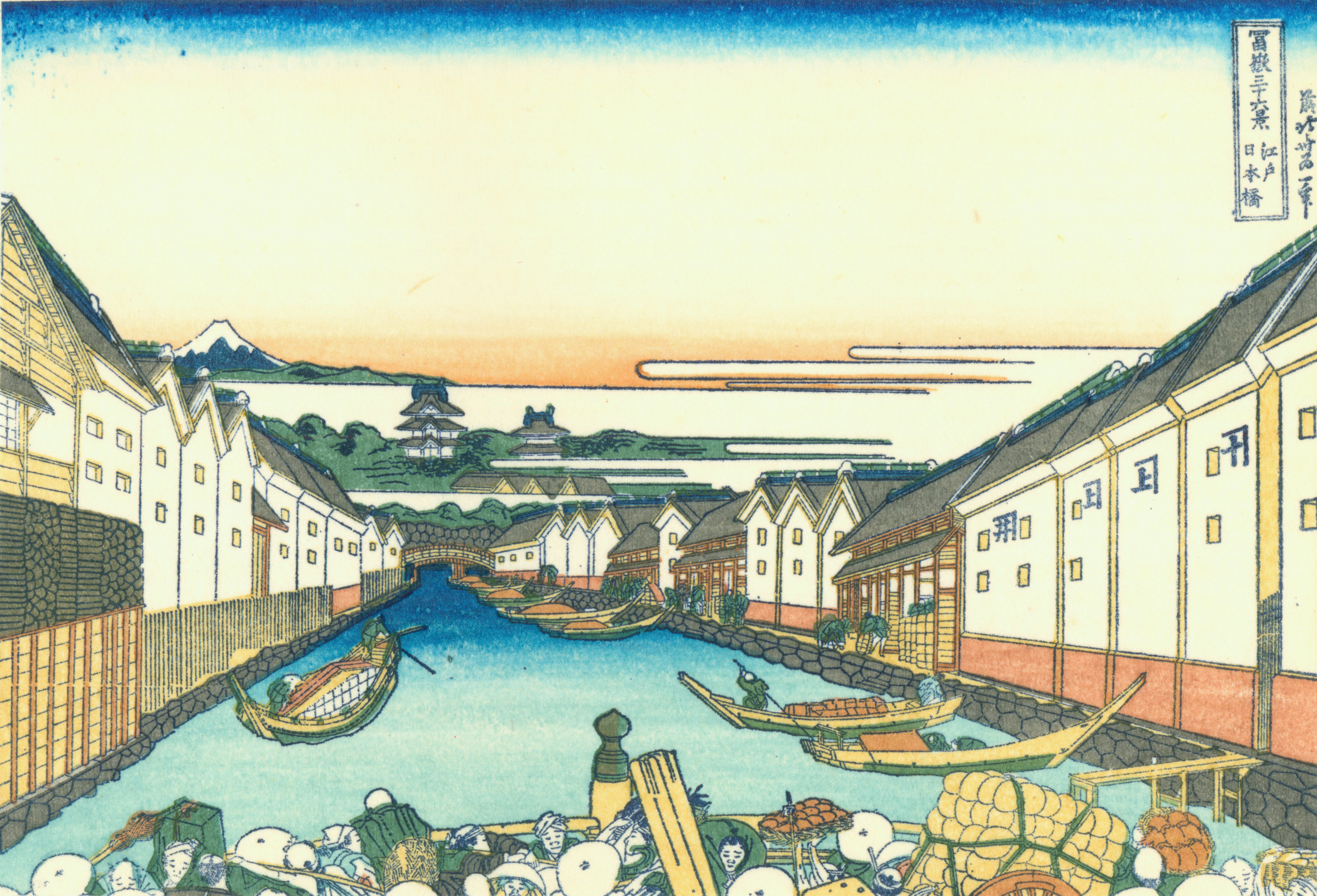 Part of the series Thirty-six Views of Mount Fuji, no. 01.